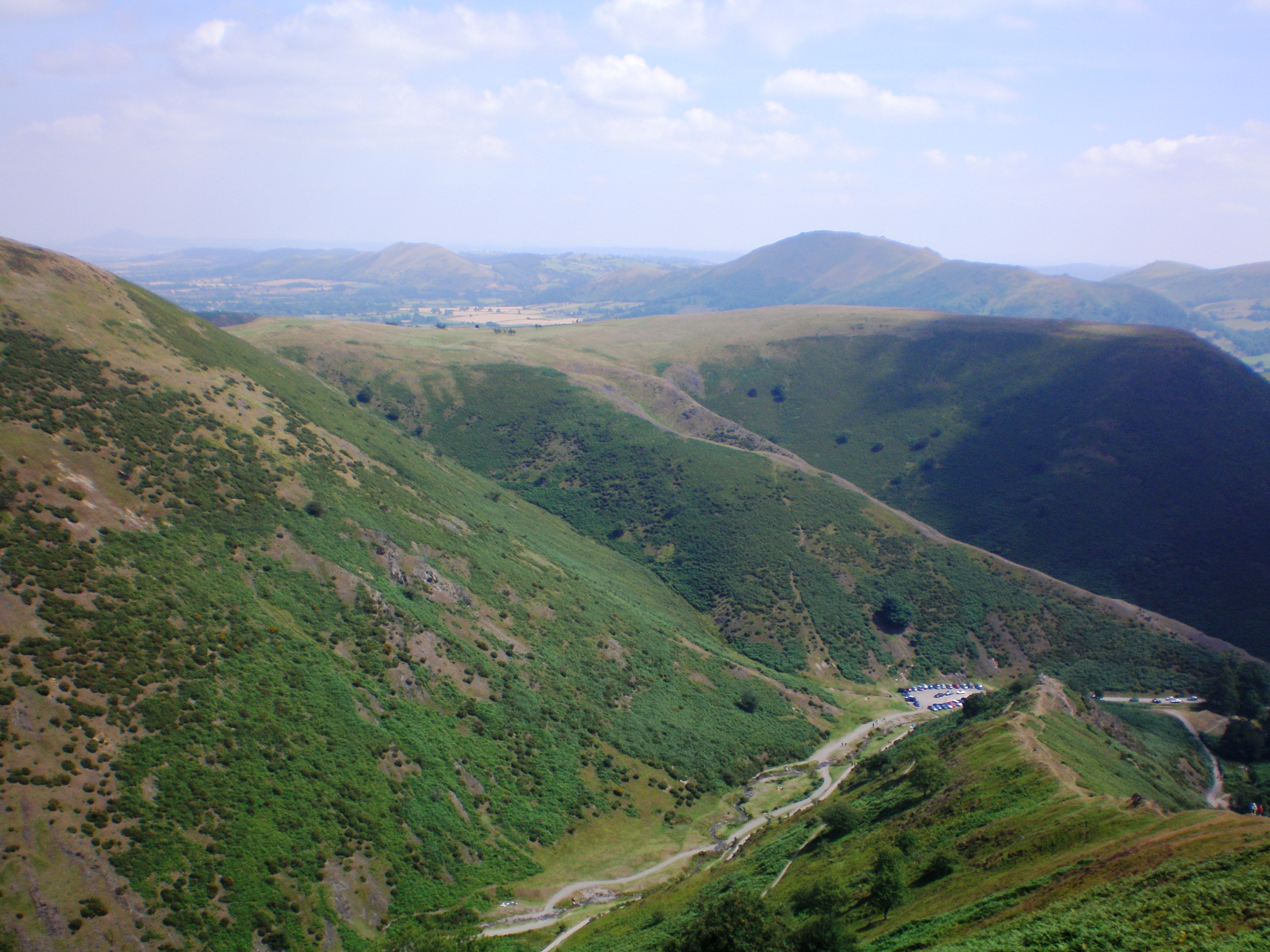 Carding Mill Valley, Shropshire